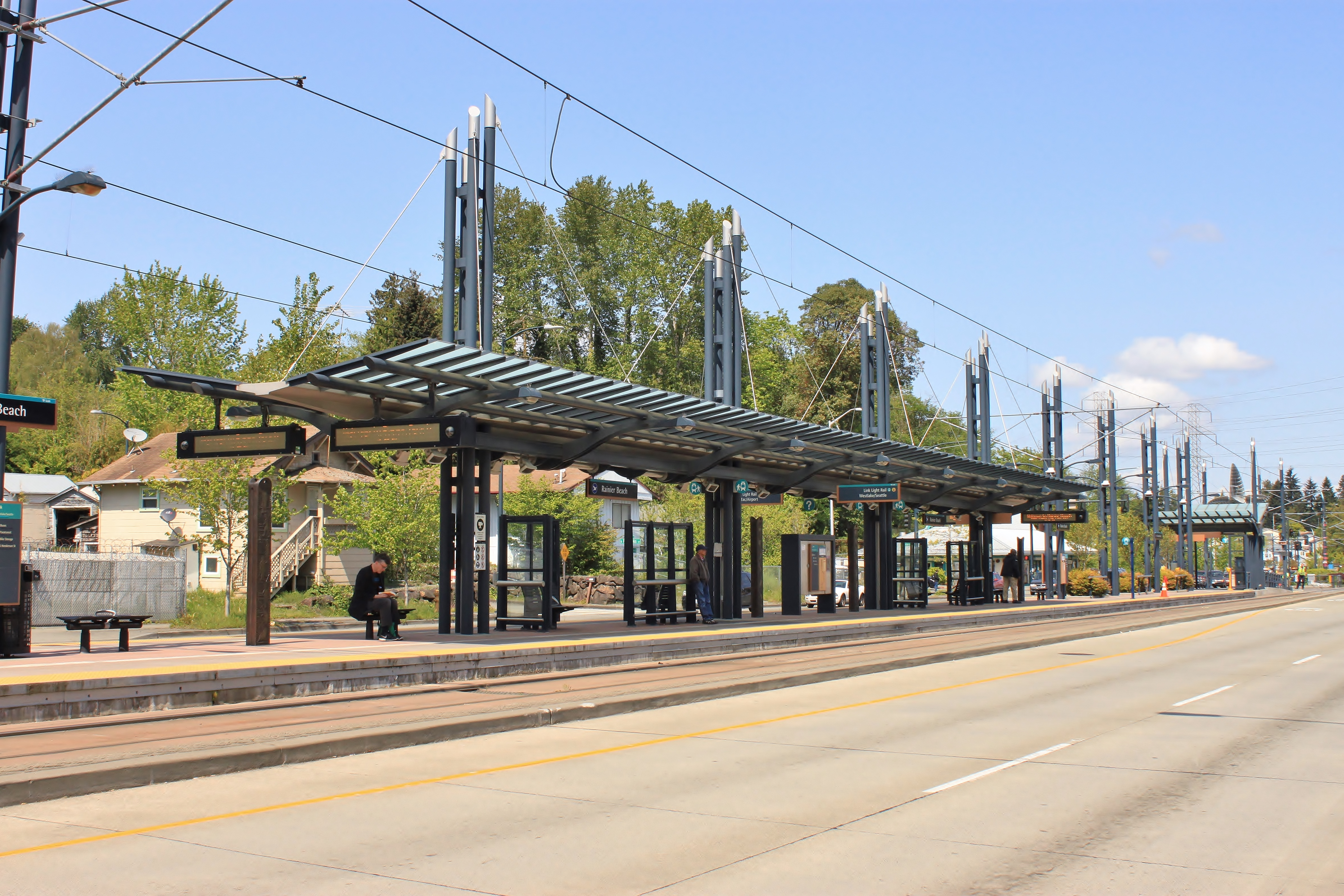 The platform at Rainier Beach station in Seattle, Washington, looking northwest from the east side of Martin Luther King Jr. Way South.